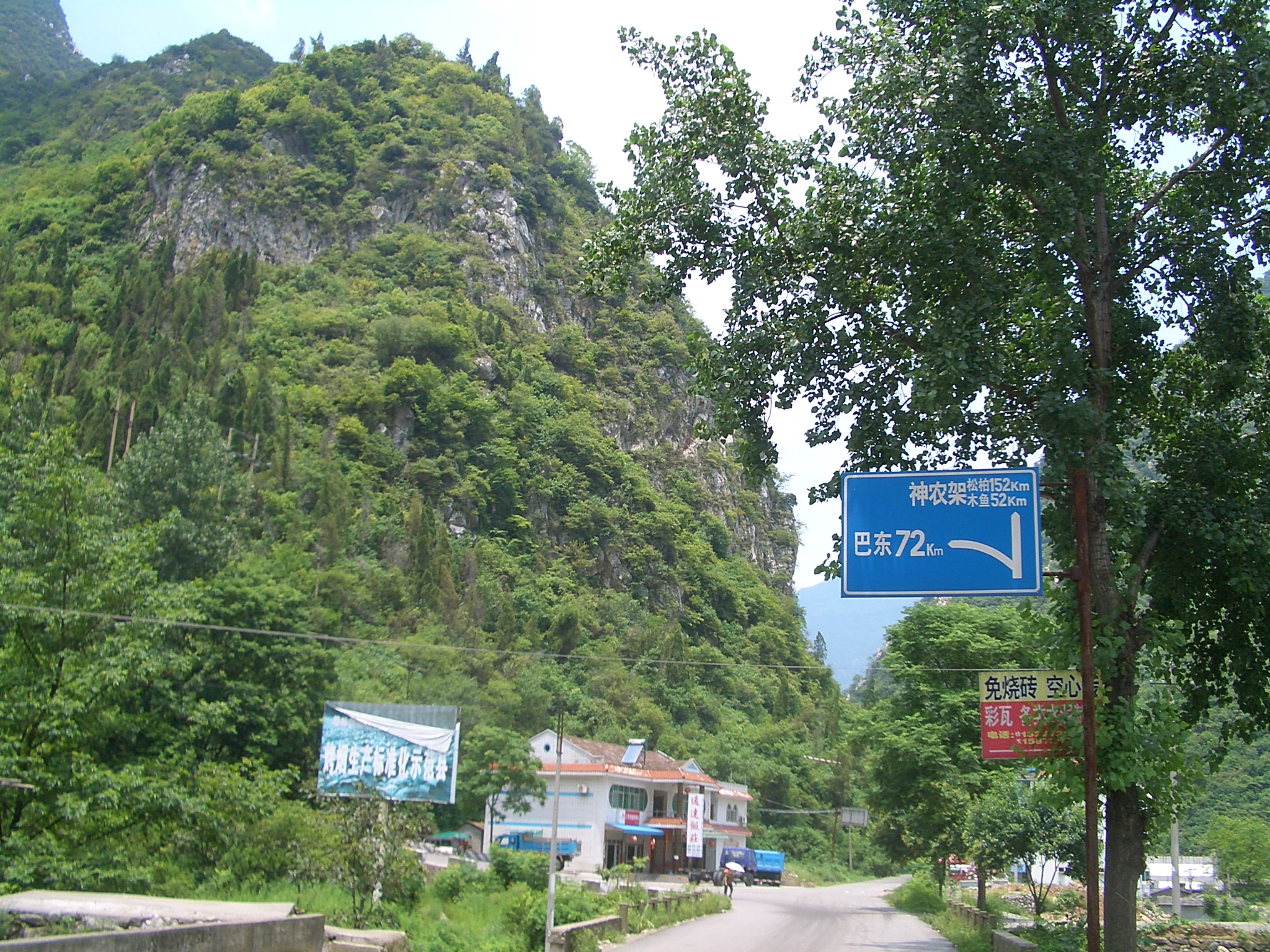 Baishahe Village (near junction of G209 and a Hubei provincial route that carries the Yichang-Shennongjia Hwy) in Nanyang Town, Xingshan County.